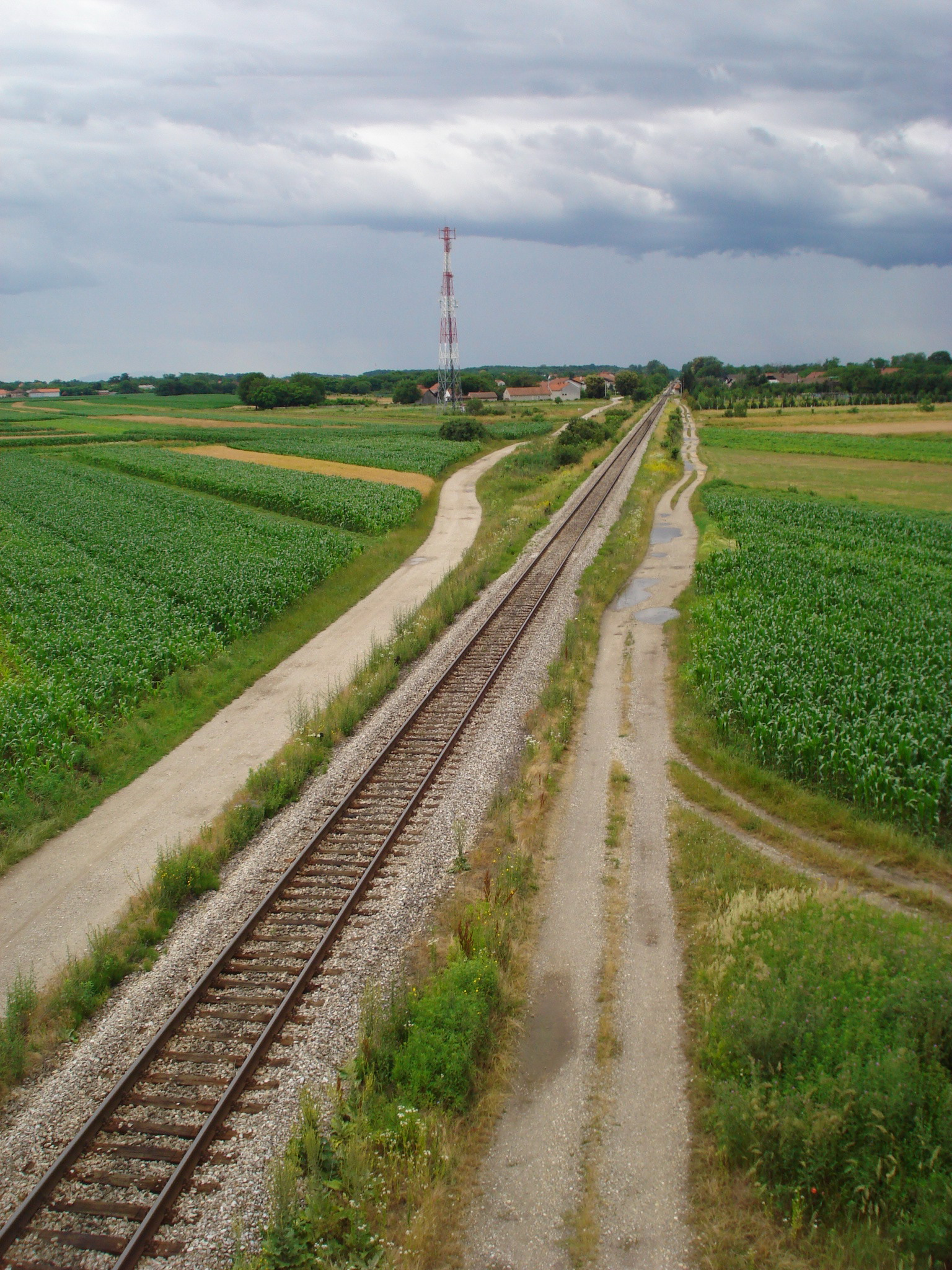 Rail tracks at Mala Subotica (Medjimurje County, Croatia)